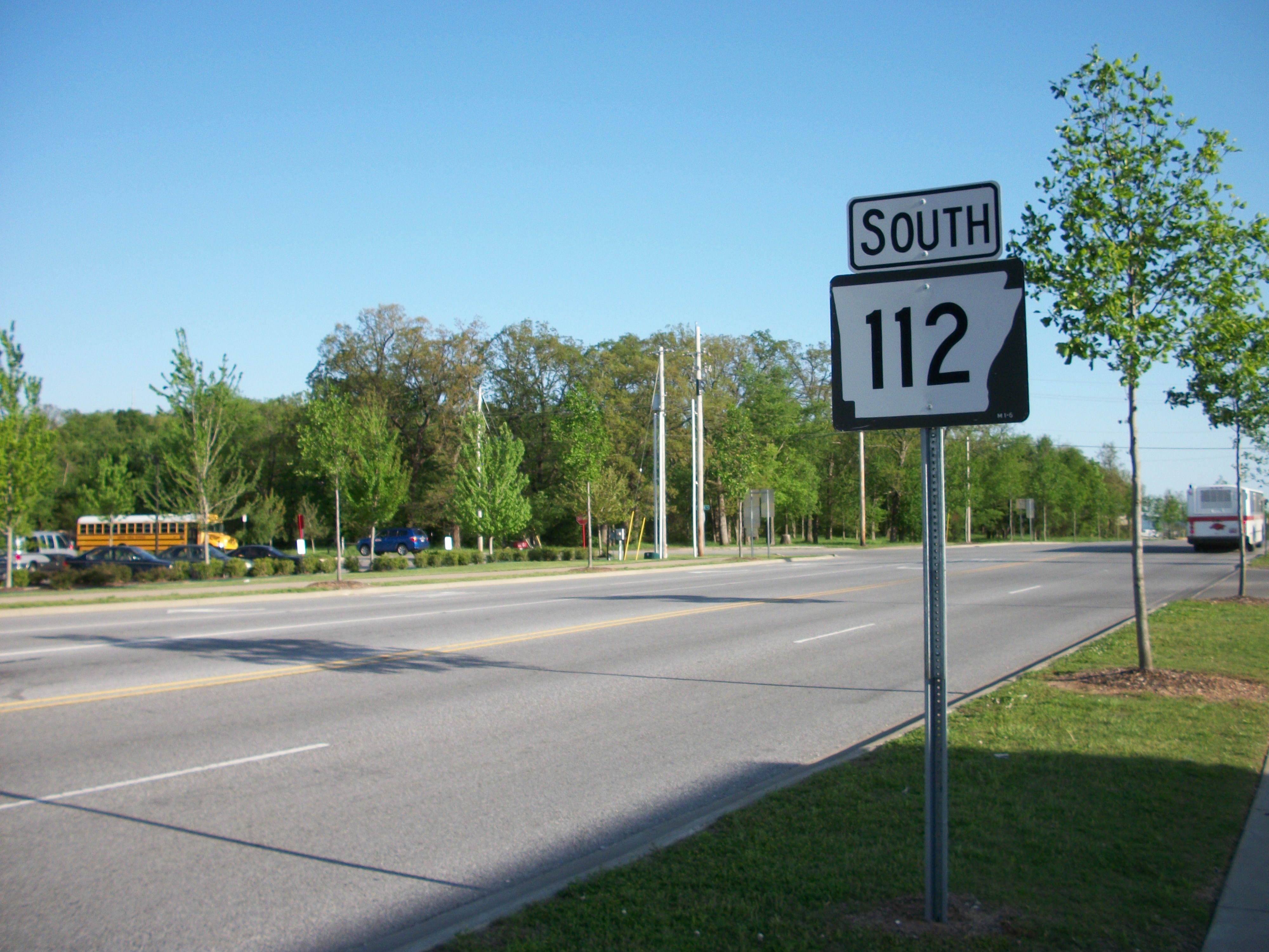 Arkansas Highway 112 in Fayetteville, Arkansas. This is just south of the junction with Highway 180 (MLK Blvd). Headed south toward Baum Stadium.